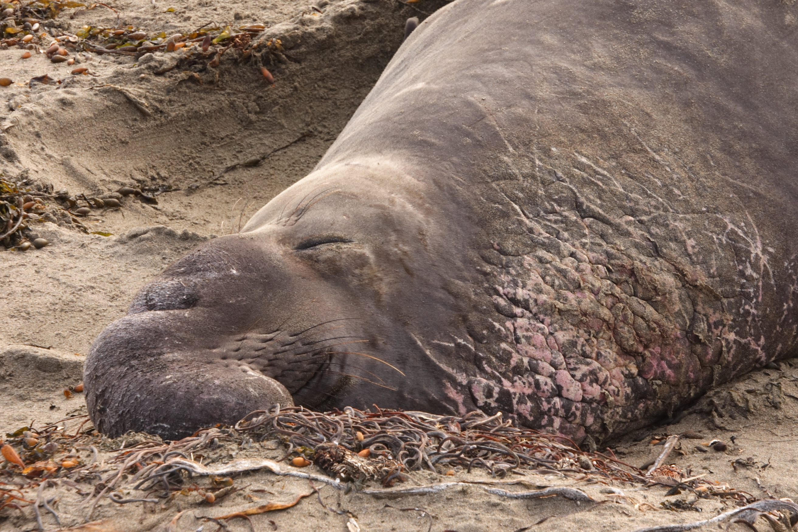 Male northern elephant seal (Mirounga angustirostris) sleeping. Neck exhibits scarring from fighting.